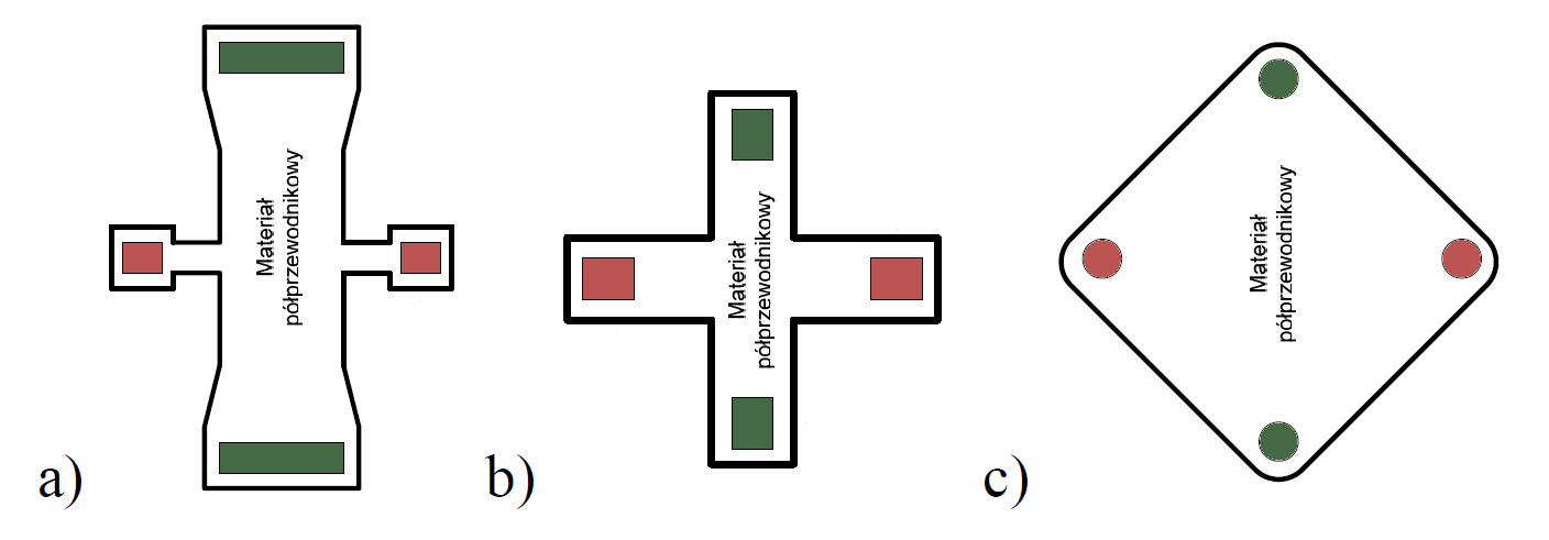 Shapes of Hall effect sensor